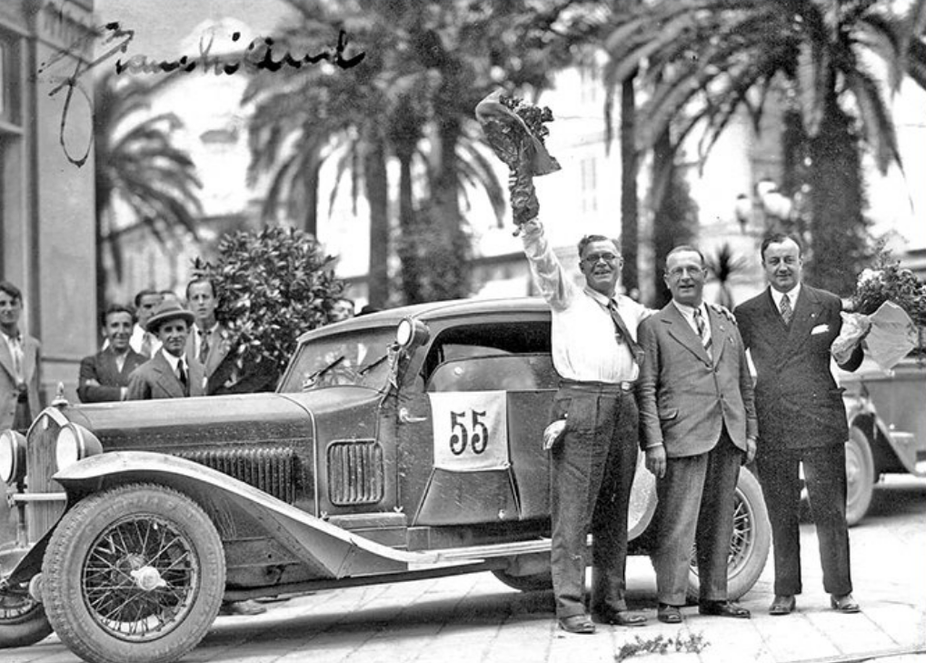 Felice Bianchi Anderloni, directory of Carrozzeria Touring, engineer Ettore Cripaldi (of A. C. Milano) and Gaetano Ponzoni, co-director of Carrozzeria Touring (right), celebrating a win in the Coppa Milano–Sanremo race on 31 May 1931, the car (entry #55) being an Alfa Romeo 6C 1750 Super Speziale with Touring body. Picture was in the book "Carrozzeria Touring Superleggera". This car was present at the 2004 revival of that same race.[1][2]